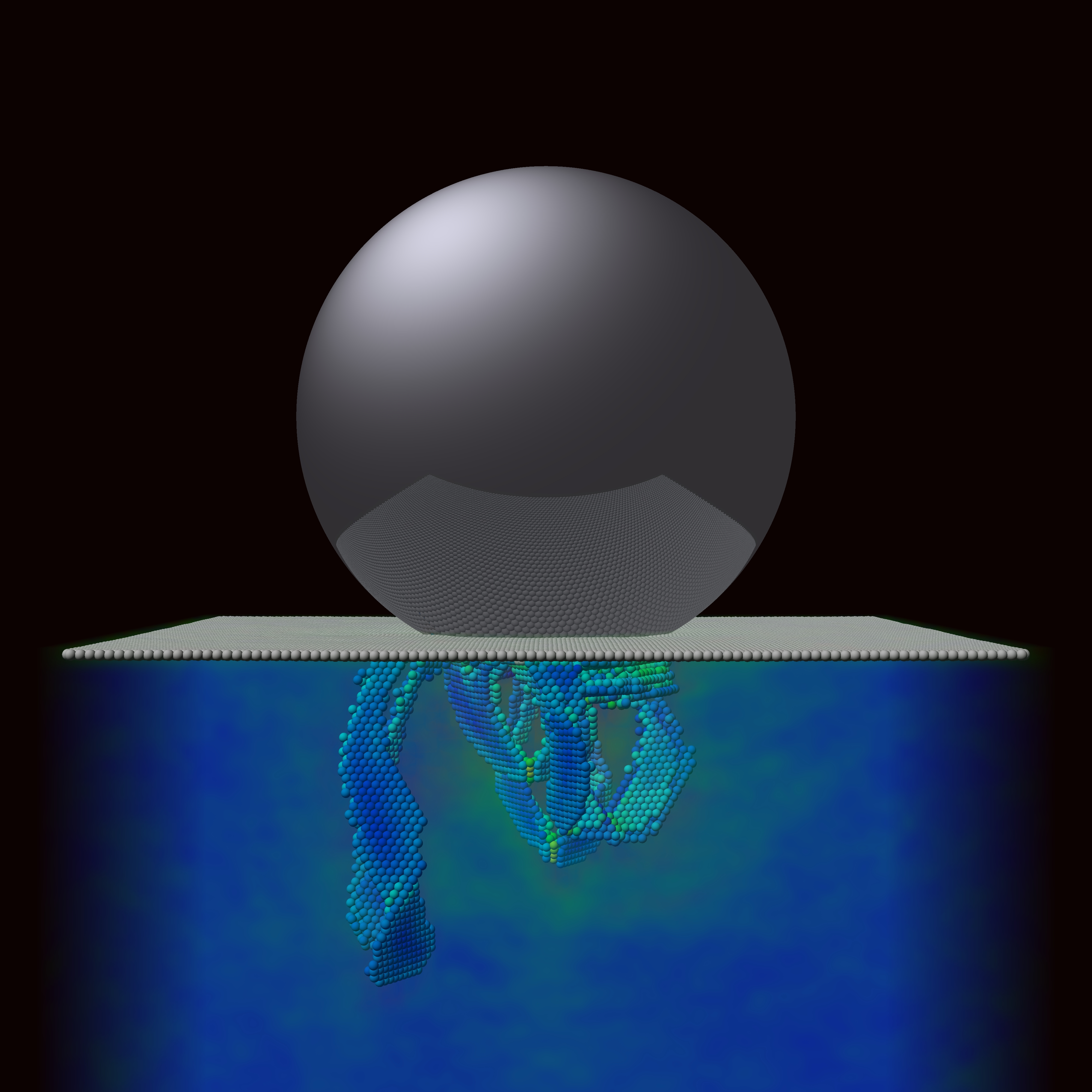 Plasticity under a Nanoindenter in (111) Copper. Simulation result from a MD simulation on (111) Copper modelled with the EAM potential of Mishin. All particles in ideal lattice positions are omitted and the color code refers to the von Mises stress field.